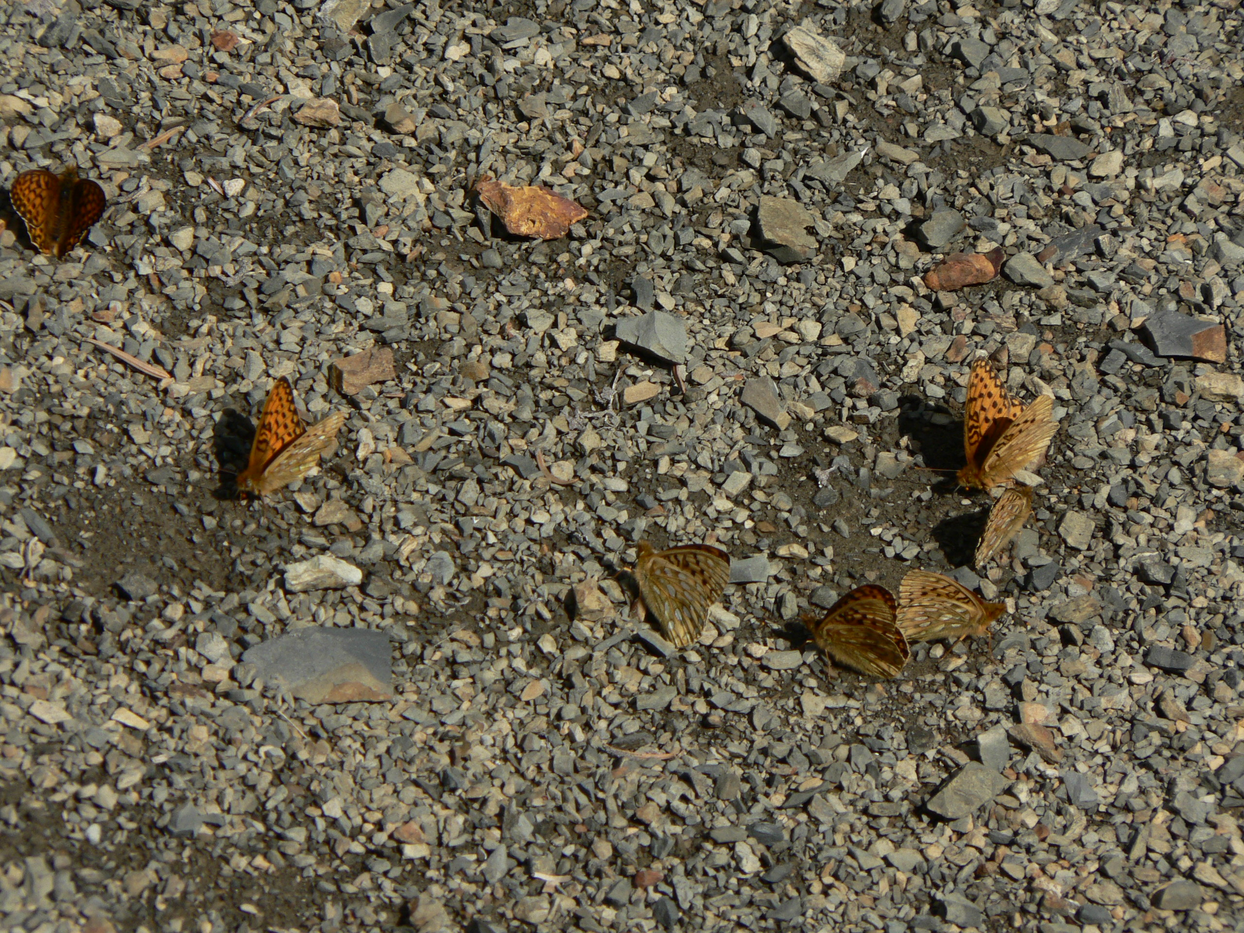 Mormon Fritillary